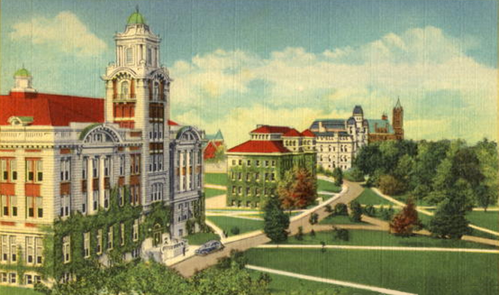 Syracuse University Quad - about 1920